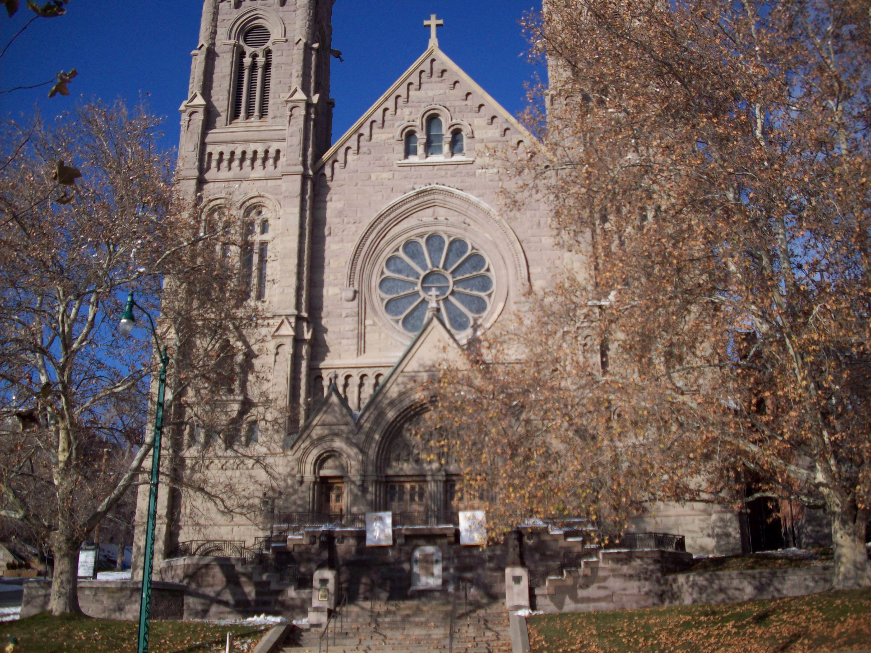 Cathedral of the Madeleine, Salt Lake City